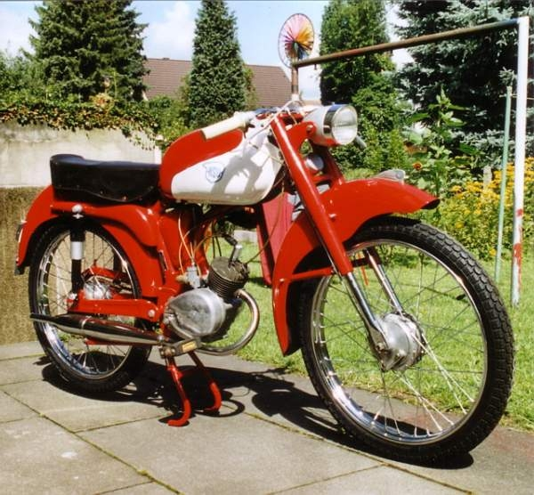 NSU Quickly Cavallino with Amadori brakes from 1957